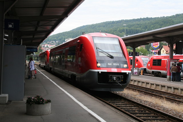 Diesel railcar at Waldshut. Single-unit railcar No 641 012-0 was new in 2000 and is typical of the DB units in use in this area. For more information, see Wikipedia articles Waldshut station and DBAG Class 641.